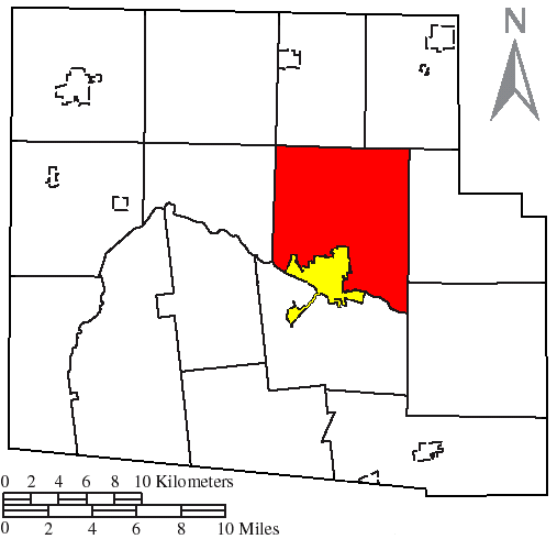 Made by the US Census and modified by myself to highlight the township